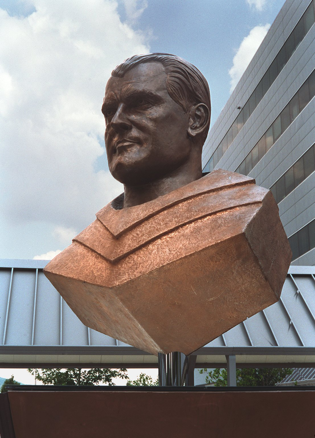 In a ceremony honoring Dr. Wernher von Braun, who served as Marshall Space Flight Center Director from 1960 to 1970, Marshall officials renamed the 4200 Building Complex as the Wernher von Braun Office Complex and unveiled a bust of the former director. This photograph is a close-up of the bust in the courtyard. The sculptor of the bust is a MSFC employee, Jack Hood.